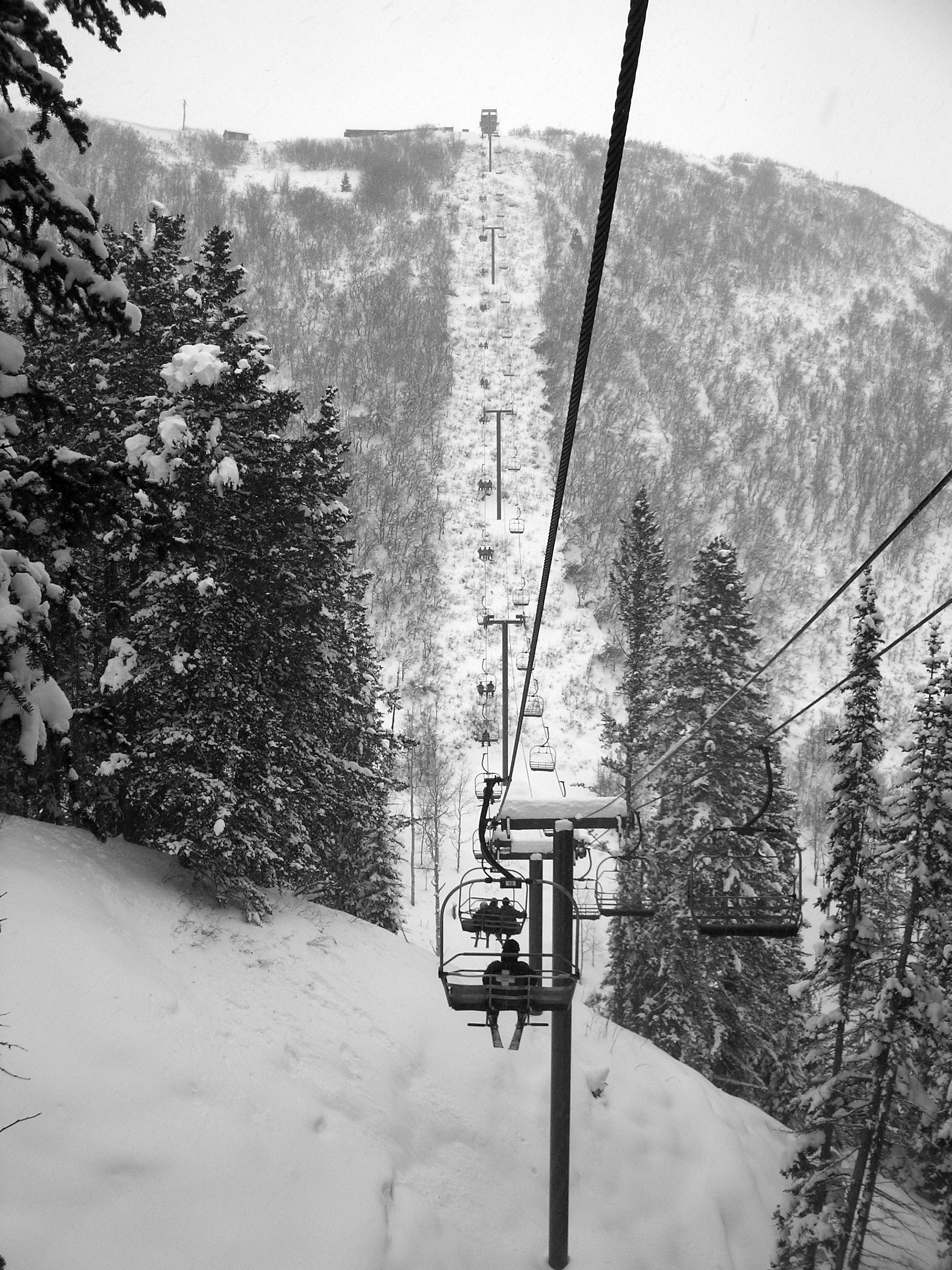 View from the Short Cut fixed triple chairlift at The Canyons resort in Park City, Utah